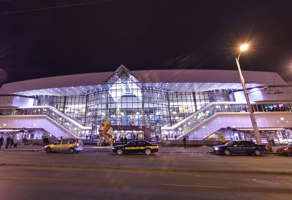 Night view of the station square in Minsk